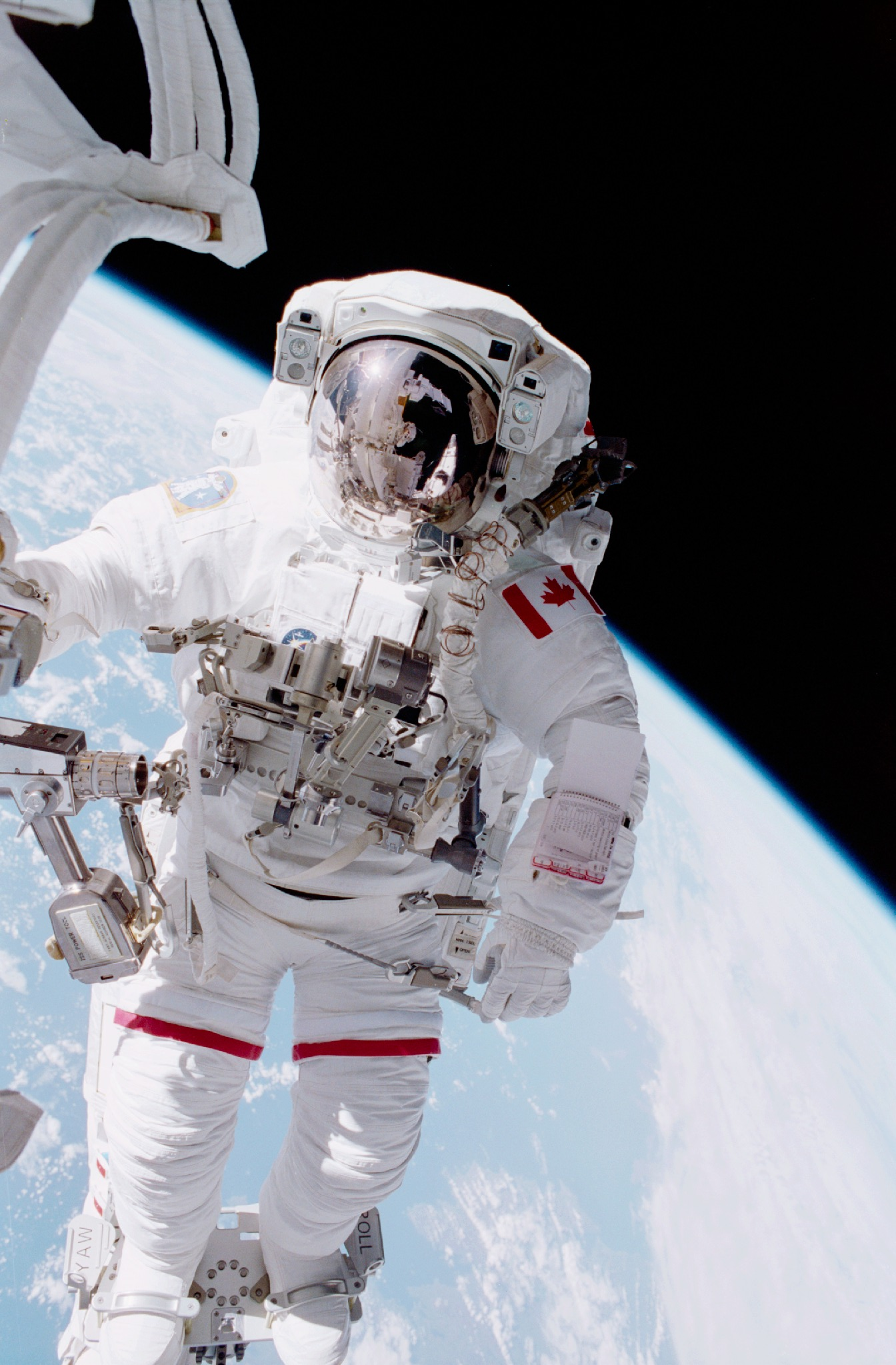 Canadian Space Agency astronaut Chris Hadfield making one of the first spacewalks by a Canadian during the STS-100 mission in 2001. NASA astronaut Scott Parazynski is reflected in Hadfield's visor. From NASA photo STS100-395-032 (19 April-1 May 2001), taken by Scott E. Parazynski, in public domain.